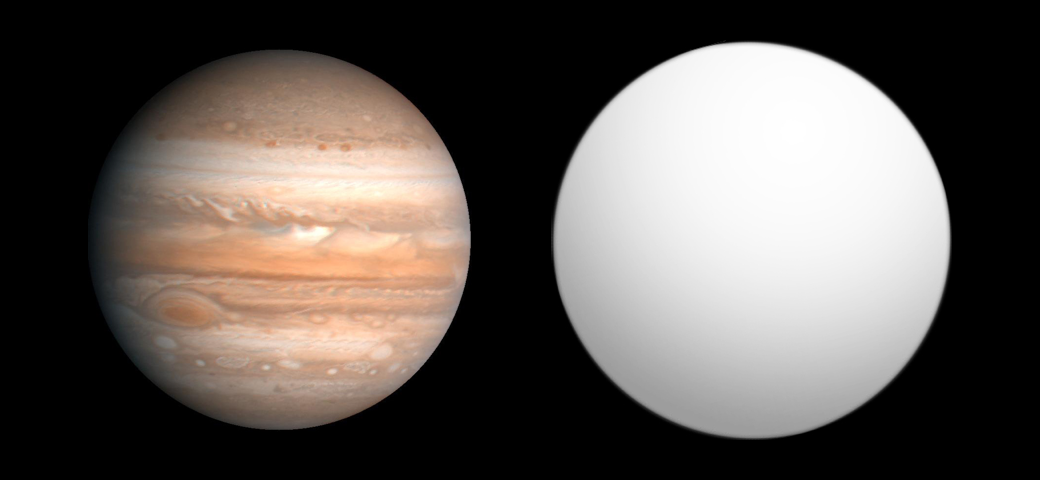 Comparison of best-fit size of the exoplanet WASP-2 b with the Solar System planet Jupiter, as reported in the Extrasolar Planets Encyclopaedia[1] as of 2010-10-03. ↑ Extrasolar Planets Encyclopaedia (2010-09-30). Retrieved on 2010-10-03.